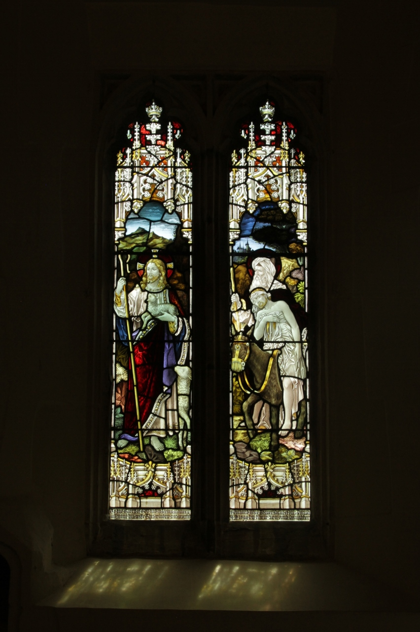 Two-light stained glass window on the south side of the nave of St Giles' parish church, Great Coxwell, Oxfordshire (formerly Berkshire). The left light represents Jesus Christ as the Good Shepherd. The right light represents the Parable of the Good Samaritan. The window was given in memory of Rev John Hope Hooper, who was Curate and then Vicar of St Giles 1878–99.